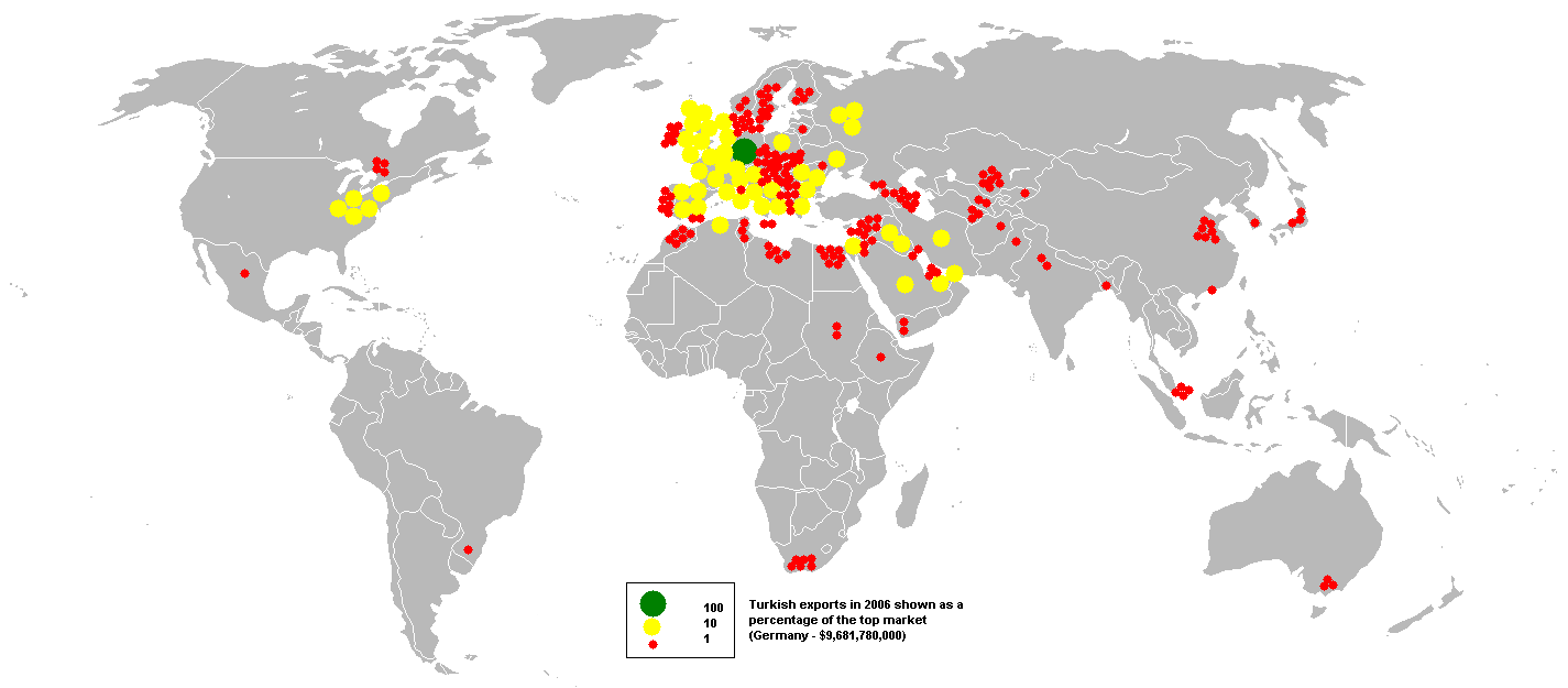 This bubble map shows the global distribution of Turkish exports in 2006 as a percentage of the top market (Germany - $9,681,780,000). This map is consistent with incomplete set of data too as long as the top producer is known. It resolves the accessibility issues faced by colour-coded maps that may not be properly rendered in old computer screens. Data was extracted on 18th September 2007 from Based on :Image:BlankMap-World.png